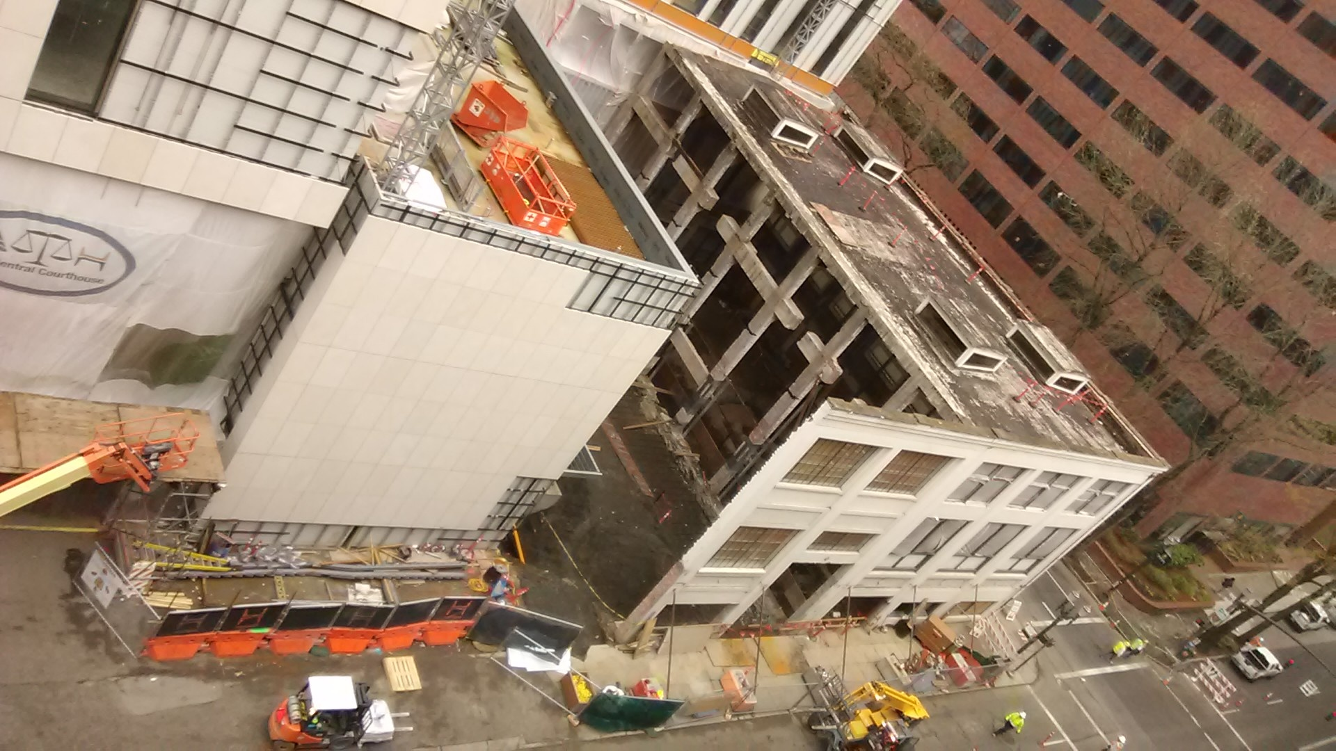 Multnomah County's new Central Courthouse under construction. It is projected to be completed in 2020.